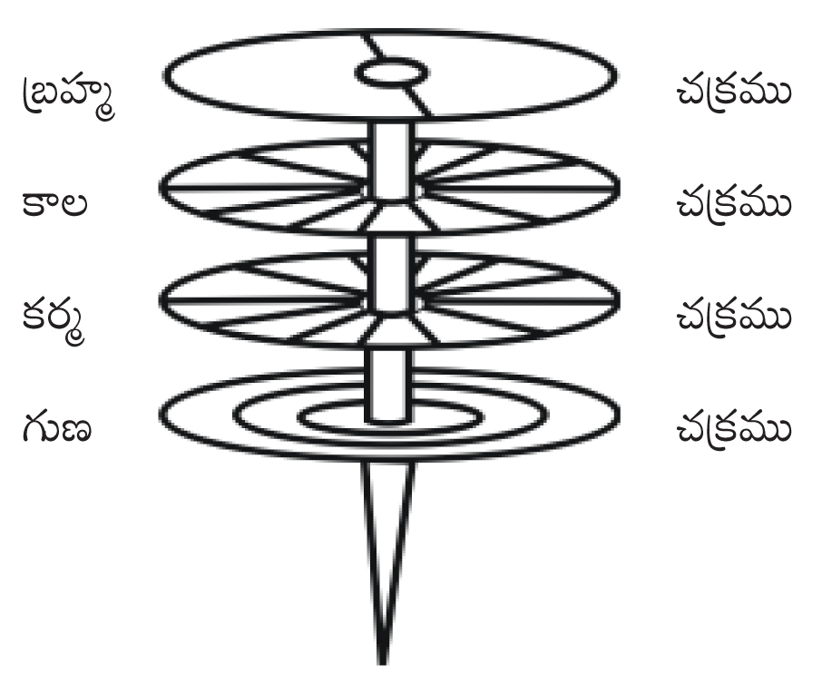 Brahma, Kaala, Karma, Guna chakramulu